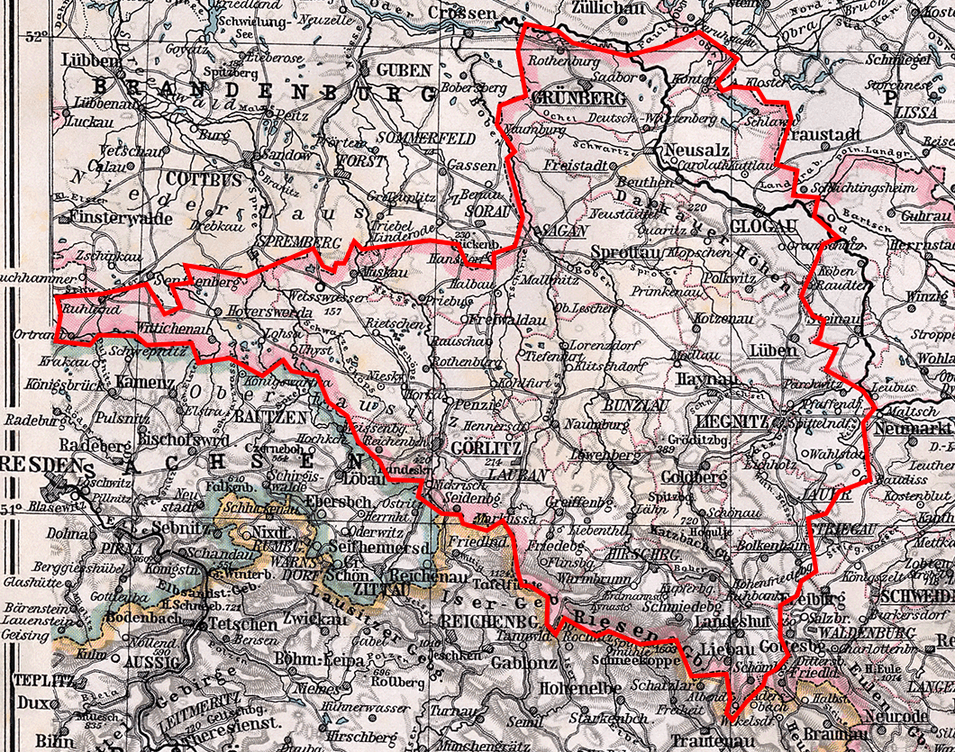 Detail from a map of Silesia.